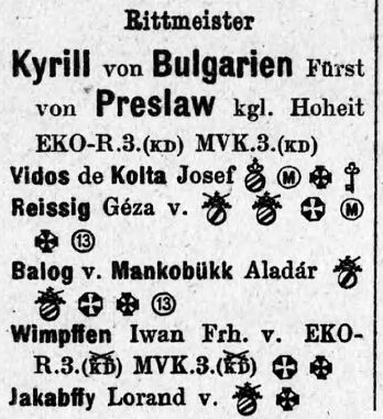 Balog v. Mankobükk family member serving in the Austro-Hungarian Army under the command of the Prince of Bulgaria.